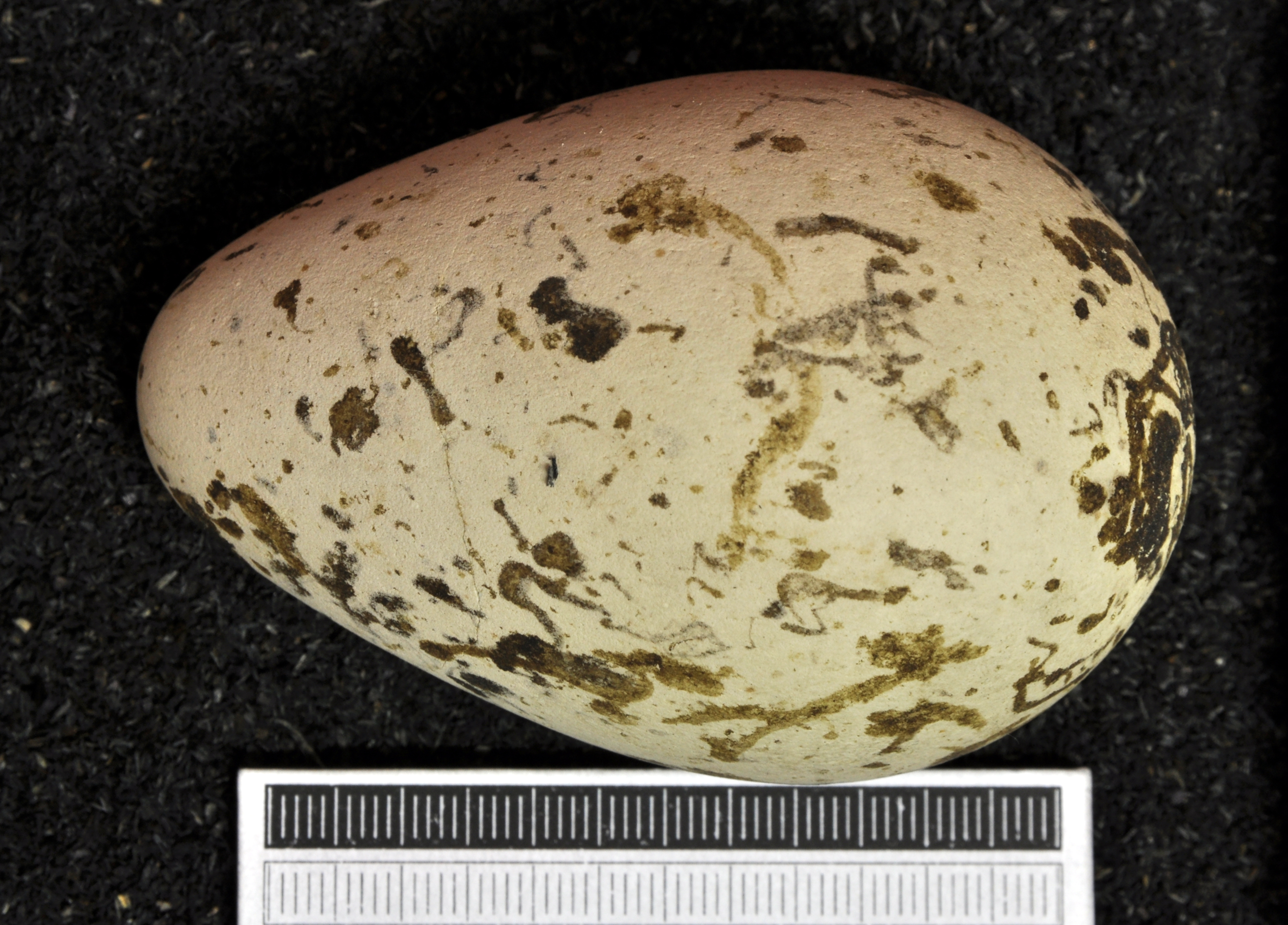 Thick-billed murre Uria lomvia , egg, Coll. Museum Wiesbaden